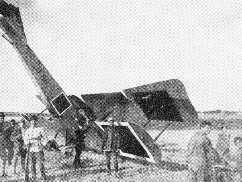 Gotha LD.2 shot down